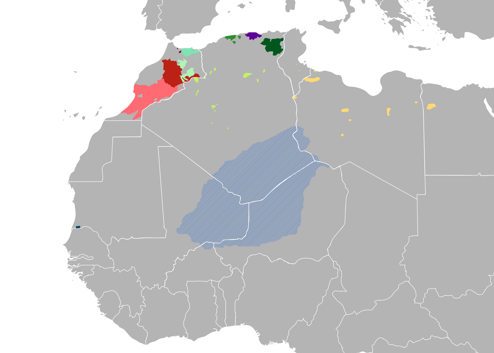 Map of Berber Amazigh Languages 2018, Tamazight